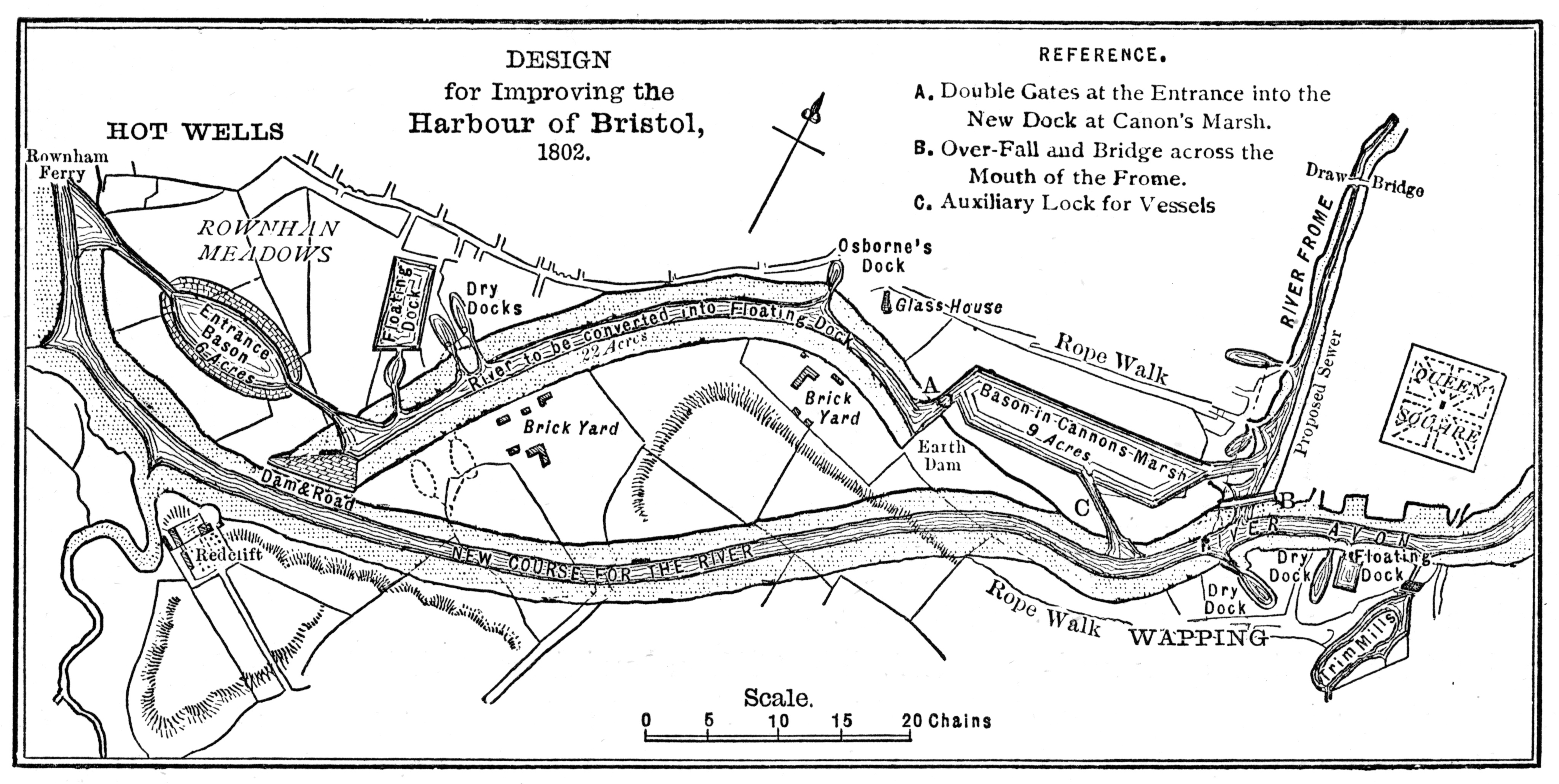 Plan for Bristol Floating Harbour, not adopted (according to source)